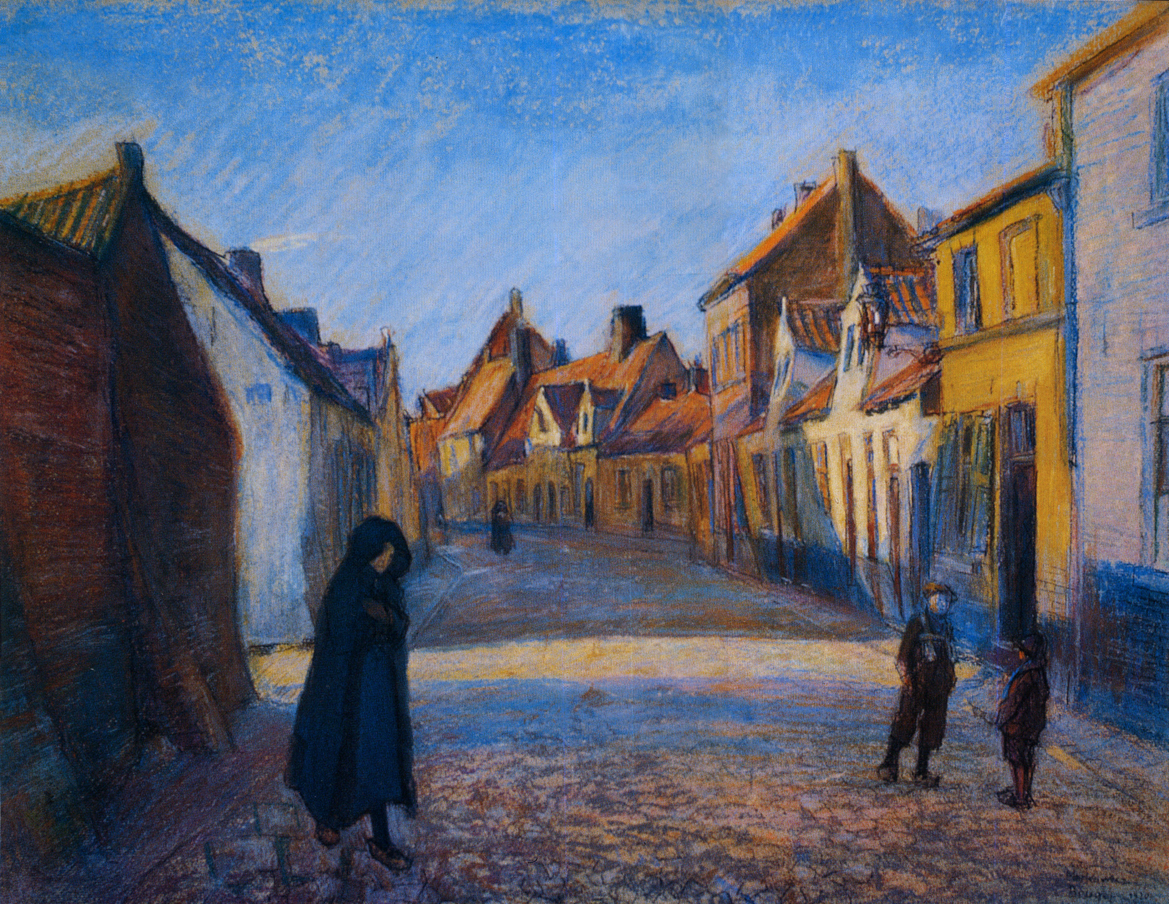 Brugge - sunny street